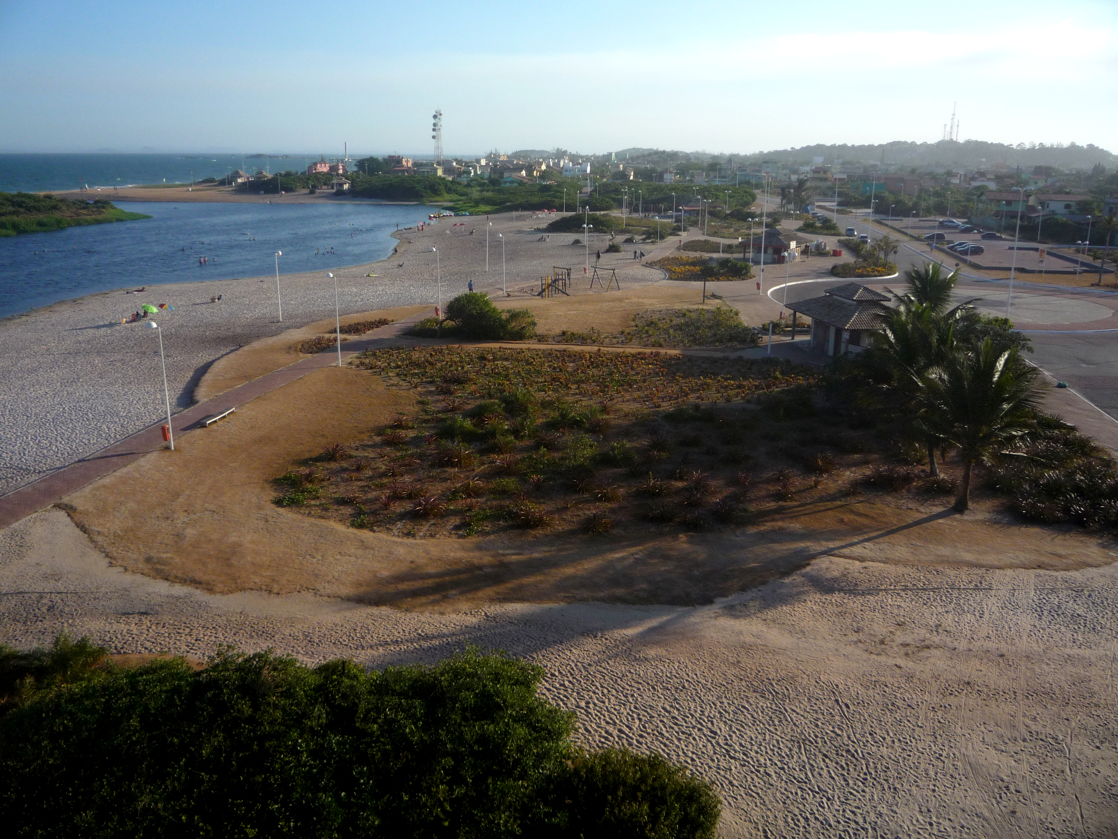 View of Lagoa do Iriri in Rio das Ostras, Brazil